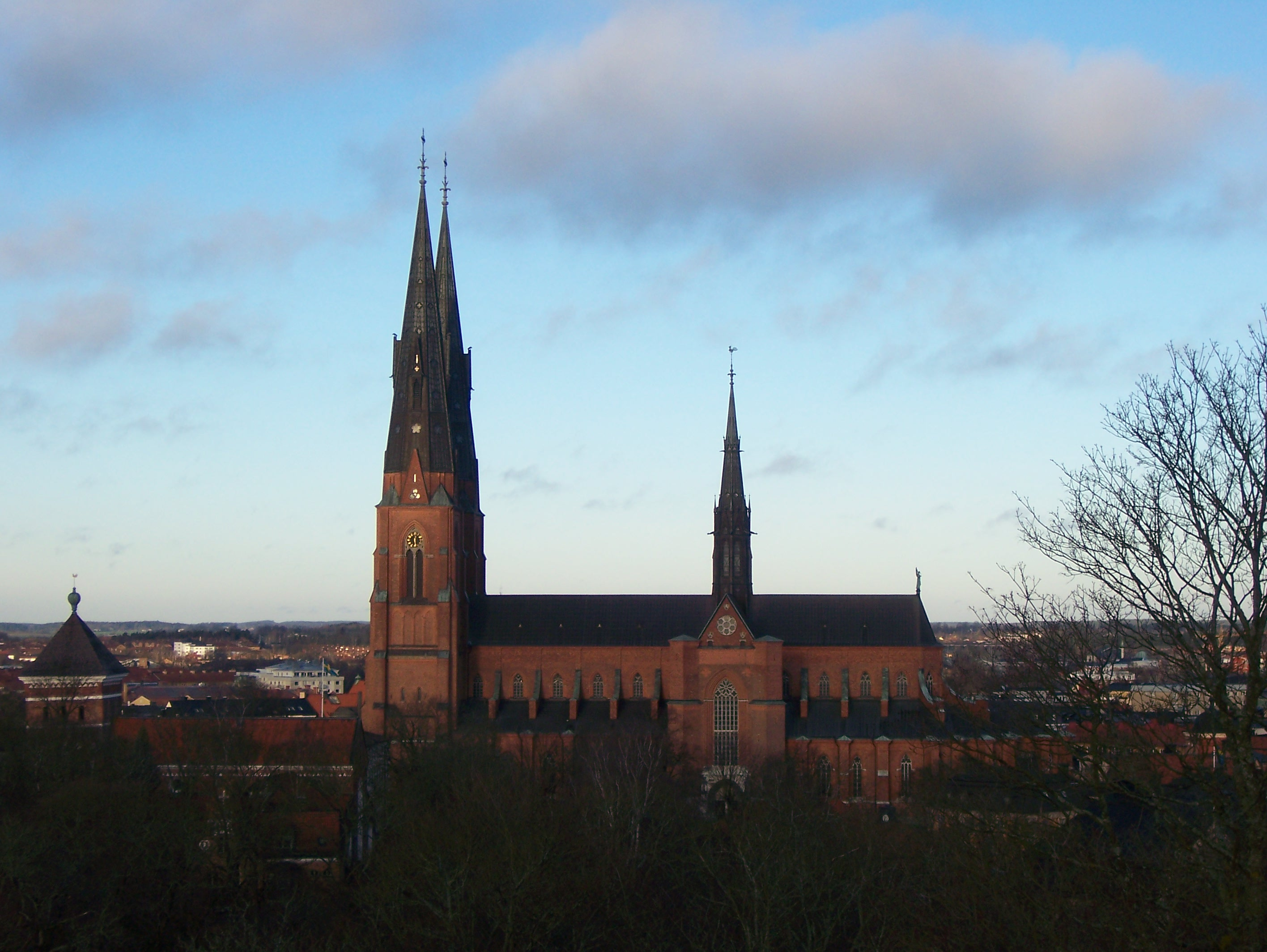 Uppsala Cathedral in Uppsala, as viewed from Uppsala Slott.